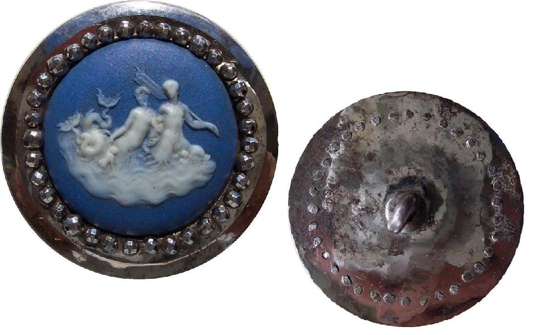 wedgewood - boulton merfamily ca 1760